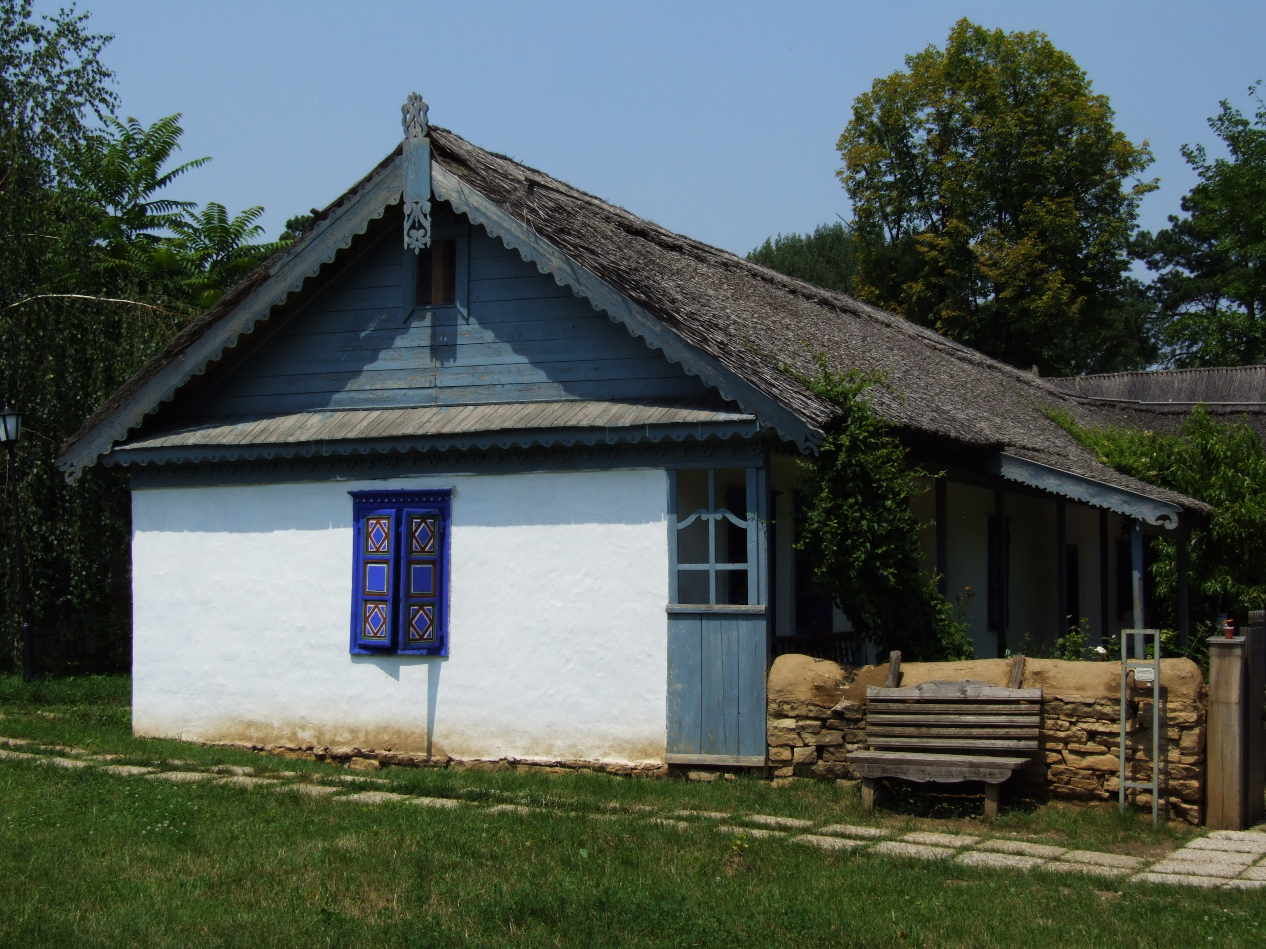 Bucharest - Village Museum. House from Jurilovca